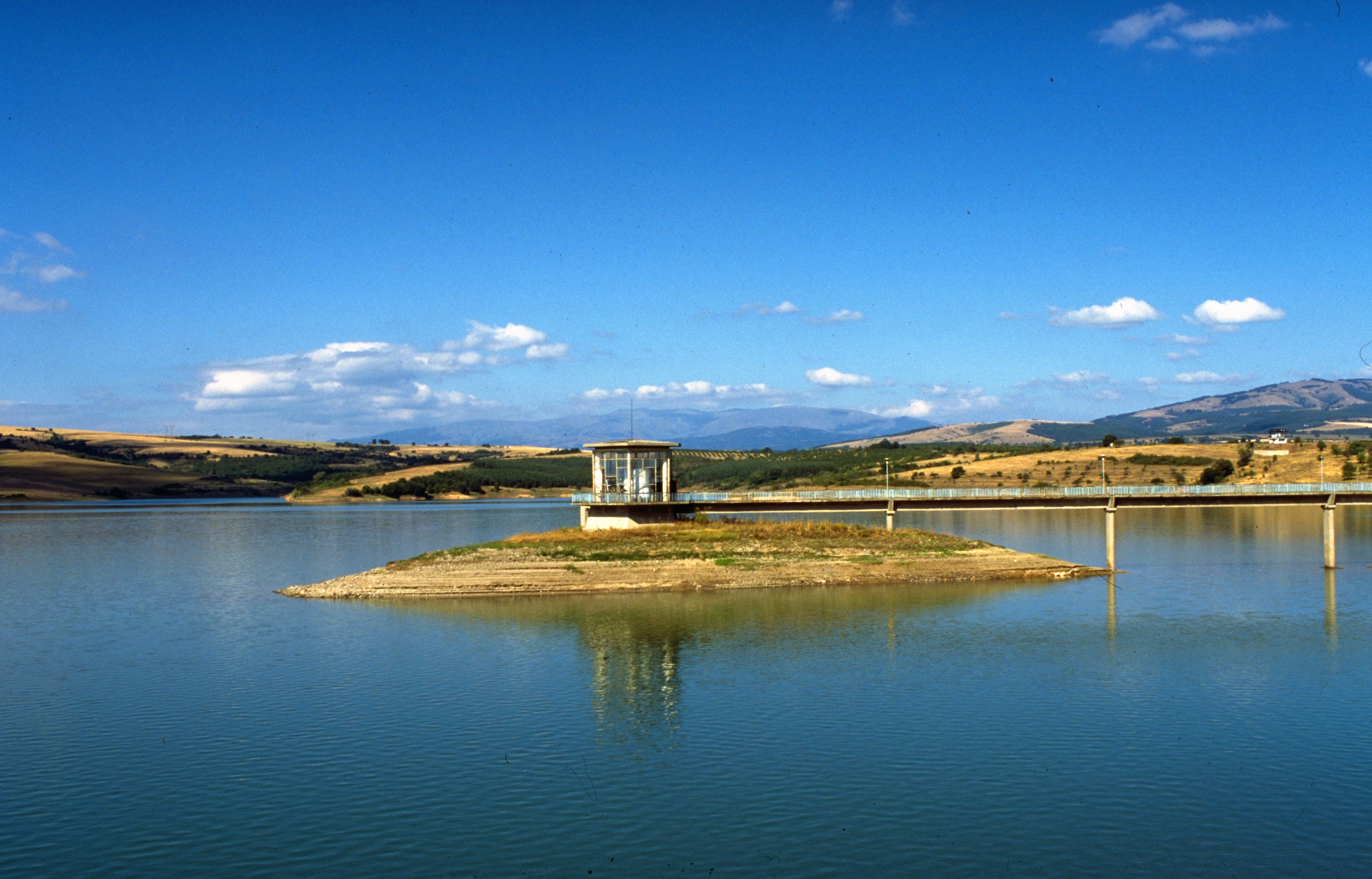 This photo is provided by the Historical Museum in Dupnitsa and is included in the album "Dupnitsa through the centuries" („Дупница през вековете“). Dupnitsa Municipality, Historical Museum - Dupnitsa. ISBN 978-954-8187-89-3.